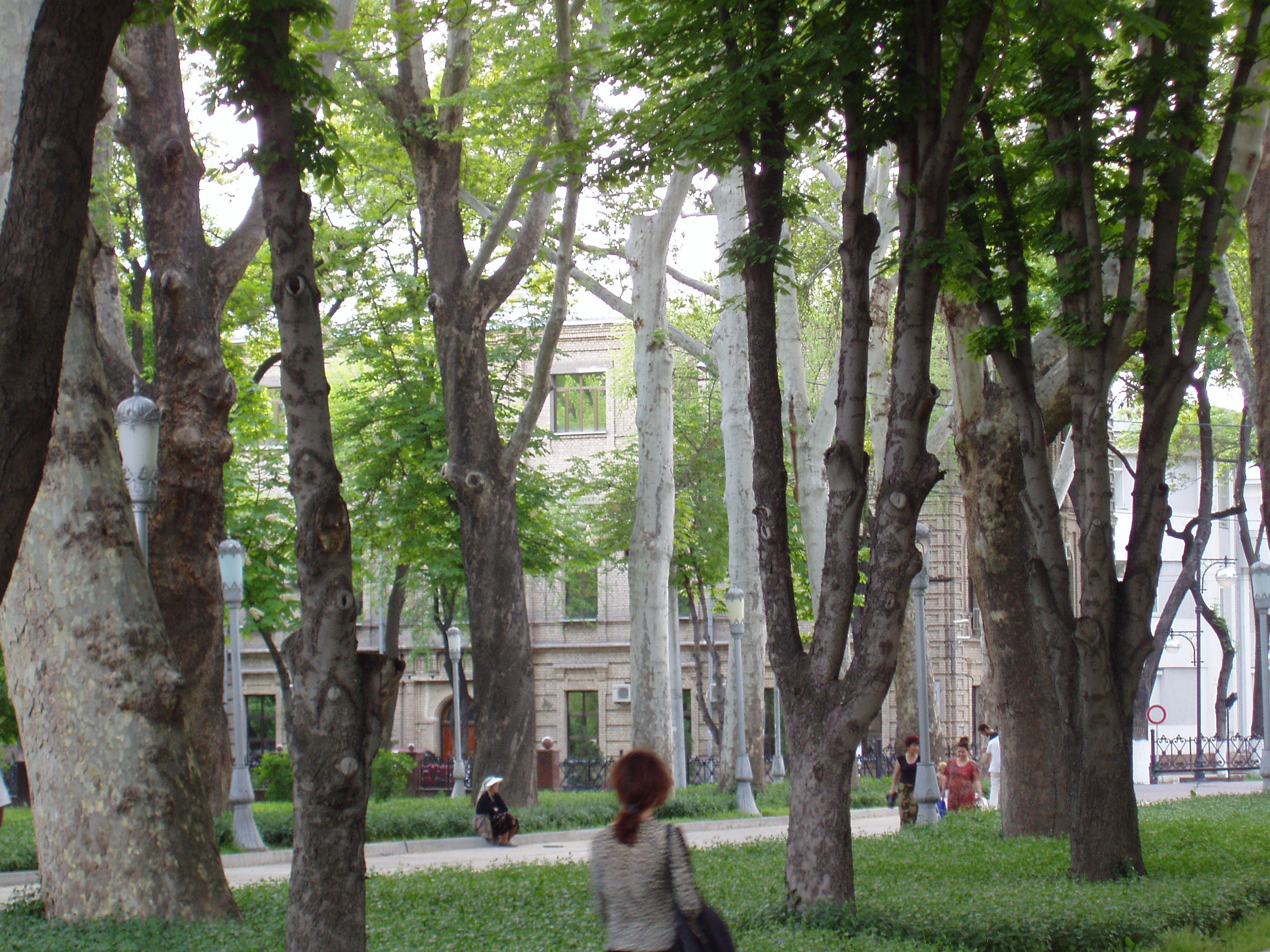 Central square of Tashkent